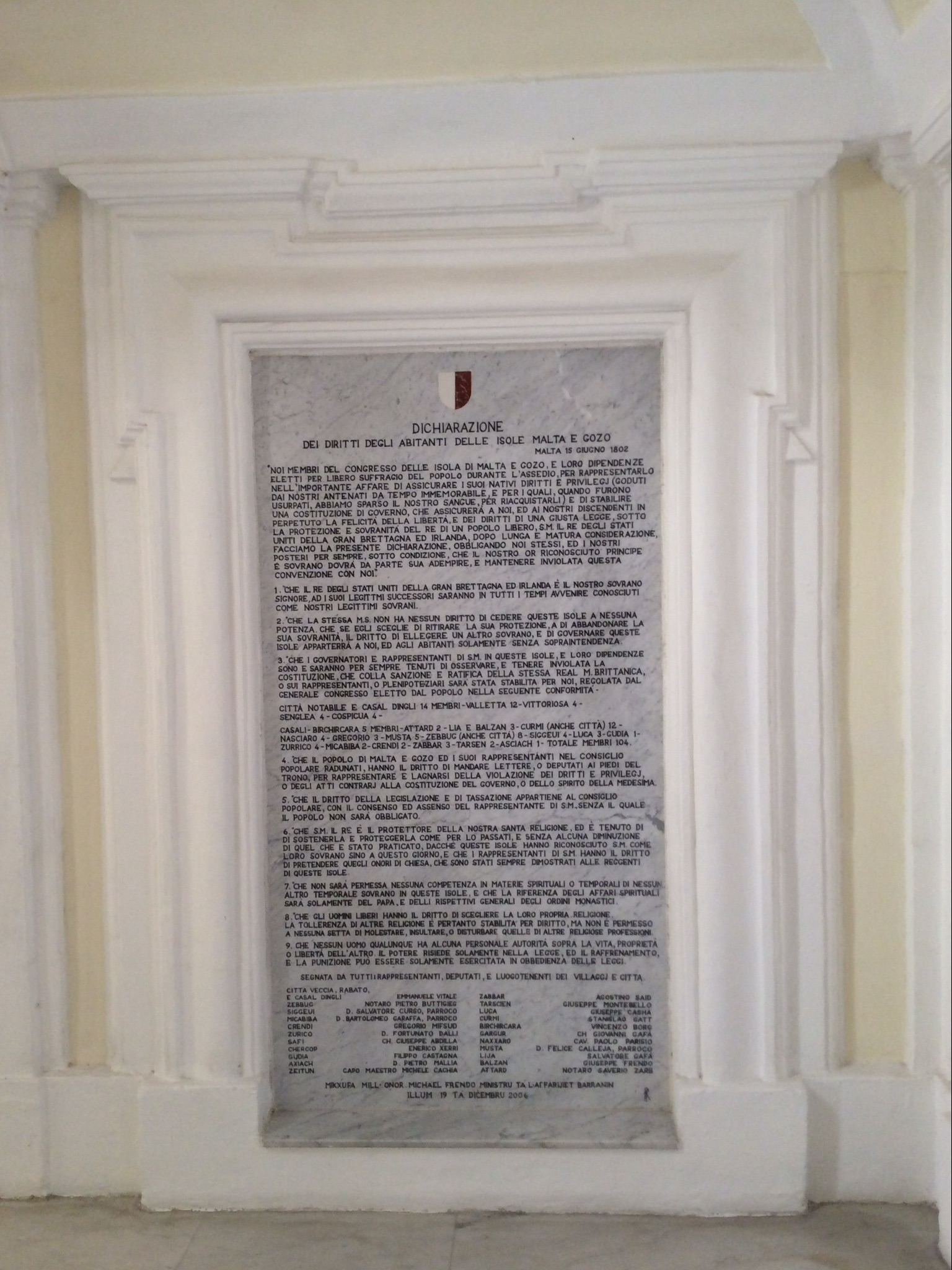 Palazzo parisio rights of man and citizens malta Other information None